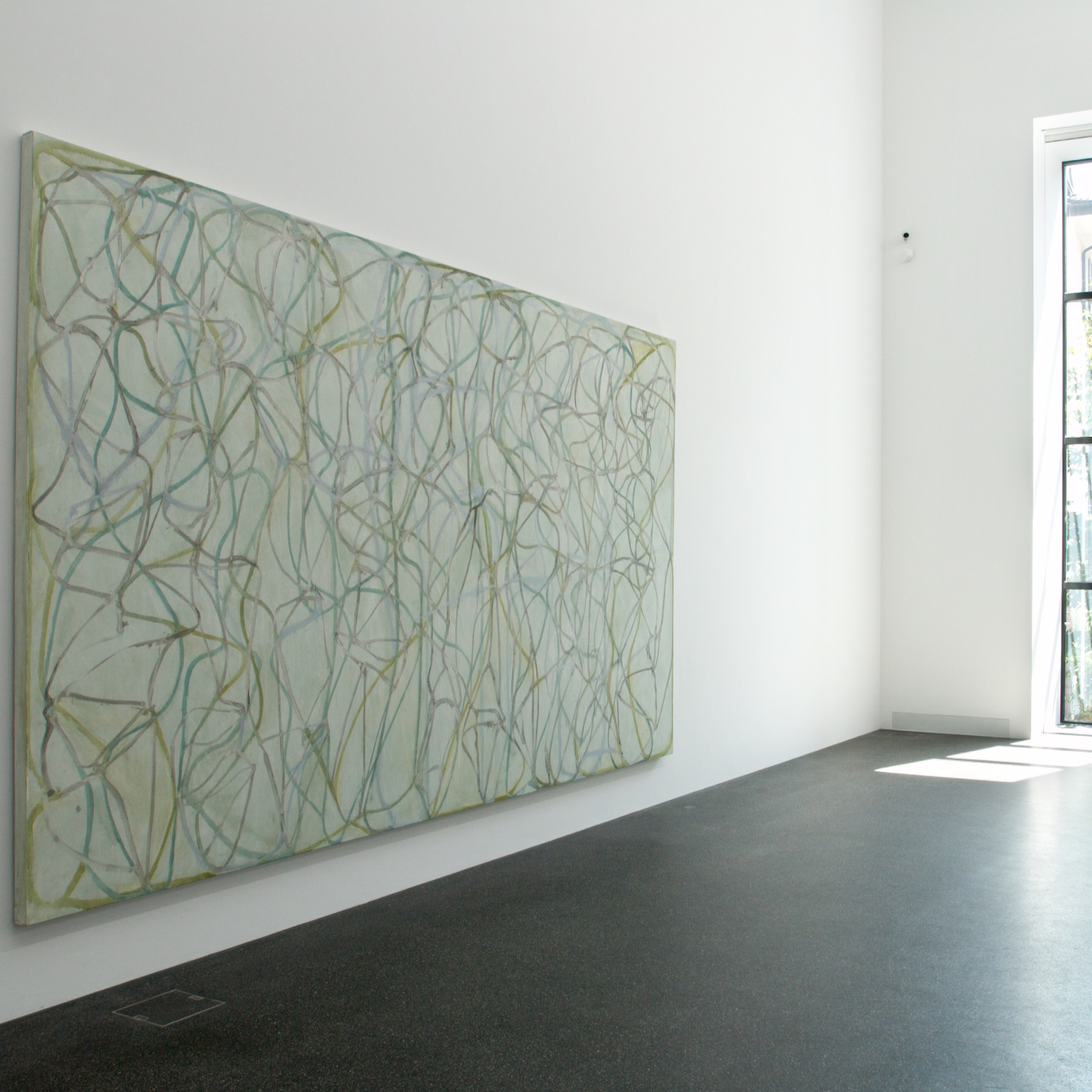 Brice Marden at the Daros Exhibition Space